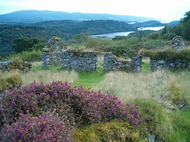 "The township of Arichonan is mentioned in 1654 but the surviving ruins date from early 19th century. The settlement was forcibly cleared in 1848. Caol Scotnish lies in the middle distance with Loch Sween in the distance." (Text by Patrick Mackie @ Geograph UK)